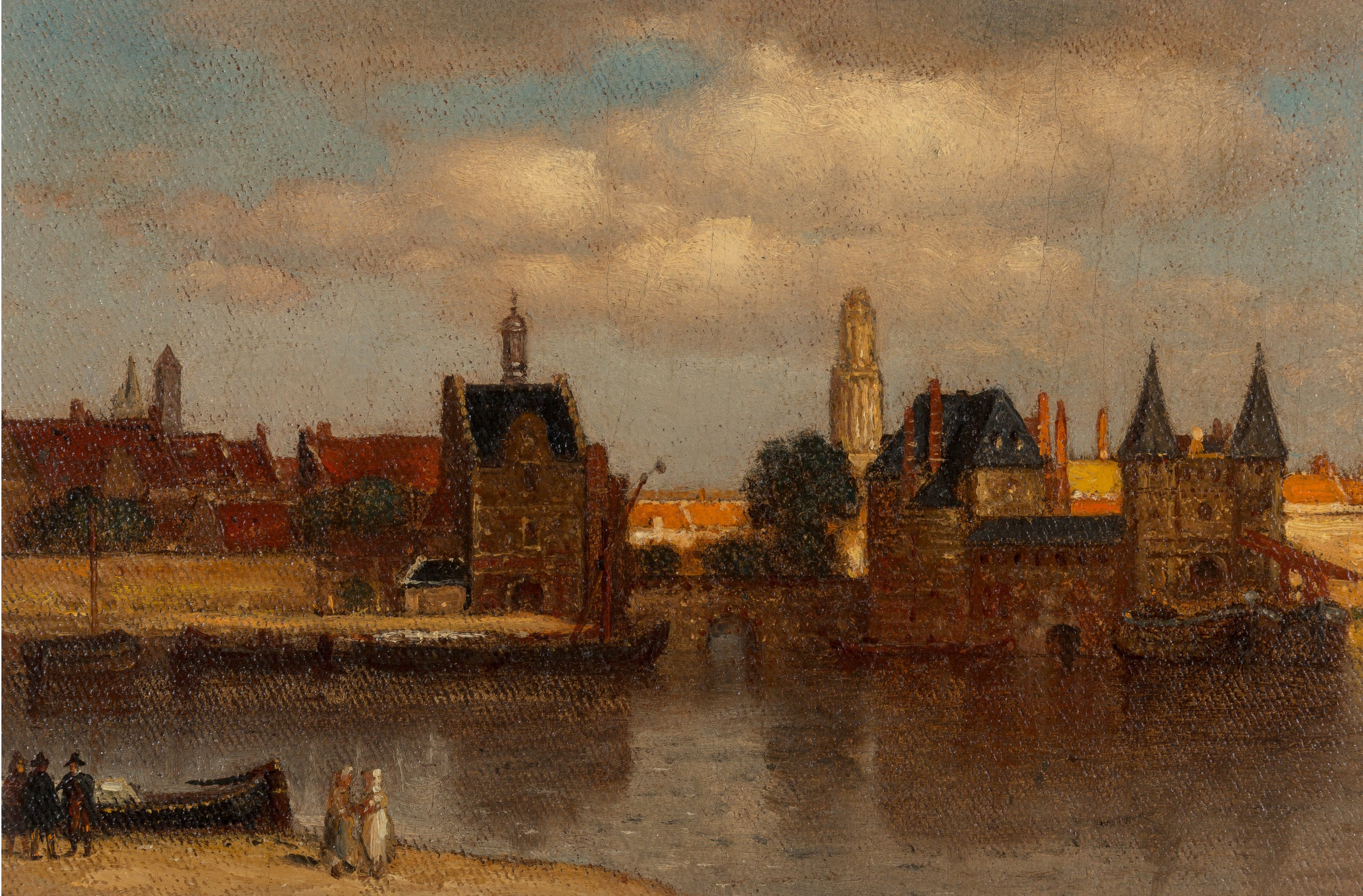 City on River's Edge by Samuel Colman, oil on canvas laid on board, 7 x 10.25 inches